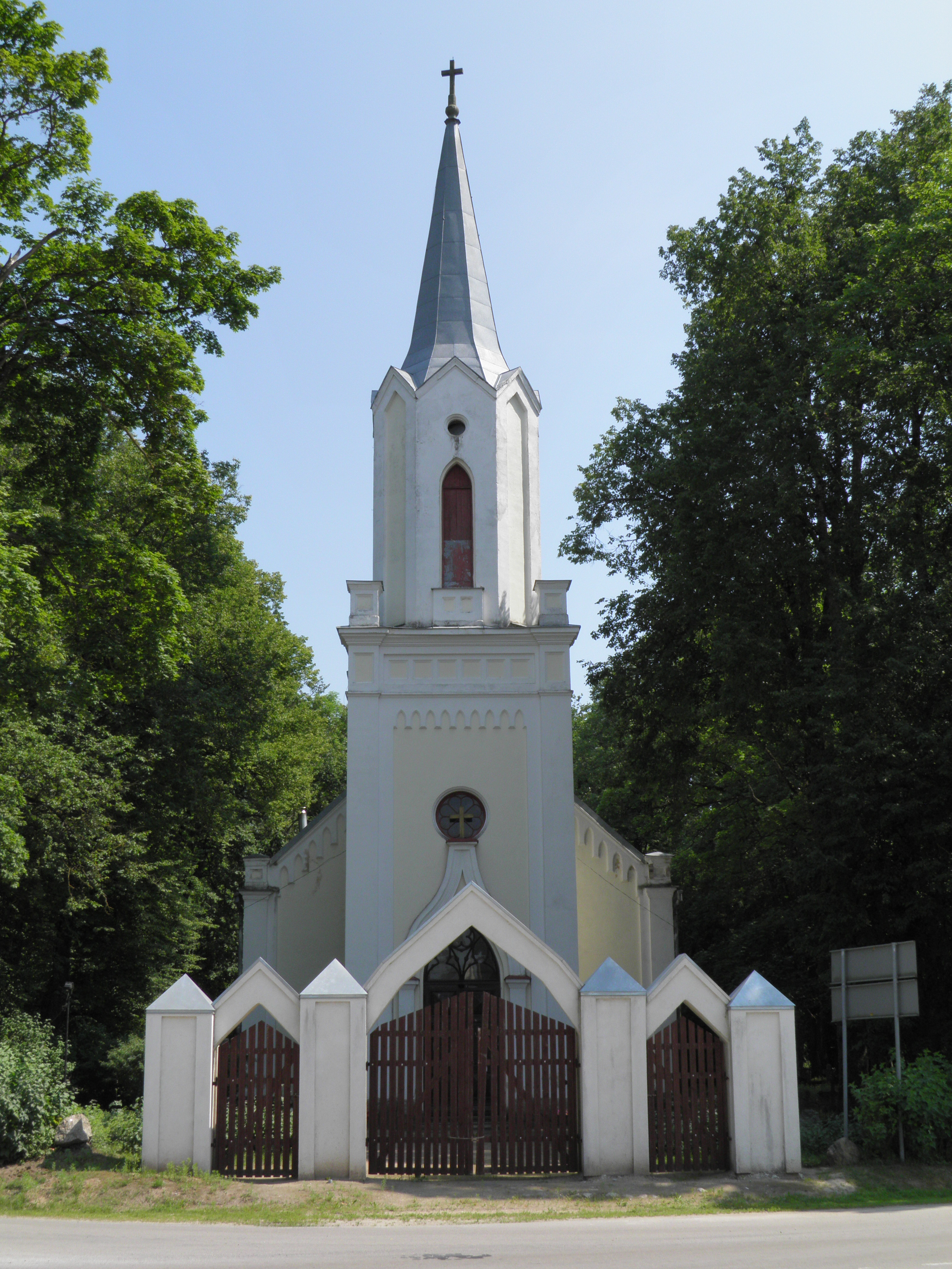 church